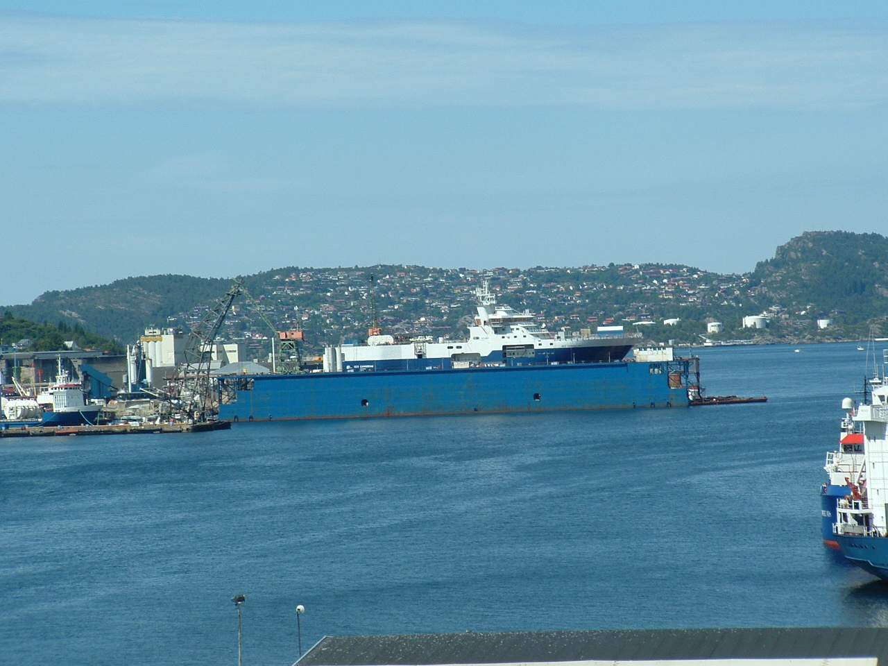 Floating dock at repair & maintenance wharf in Bergen, Norway